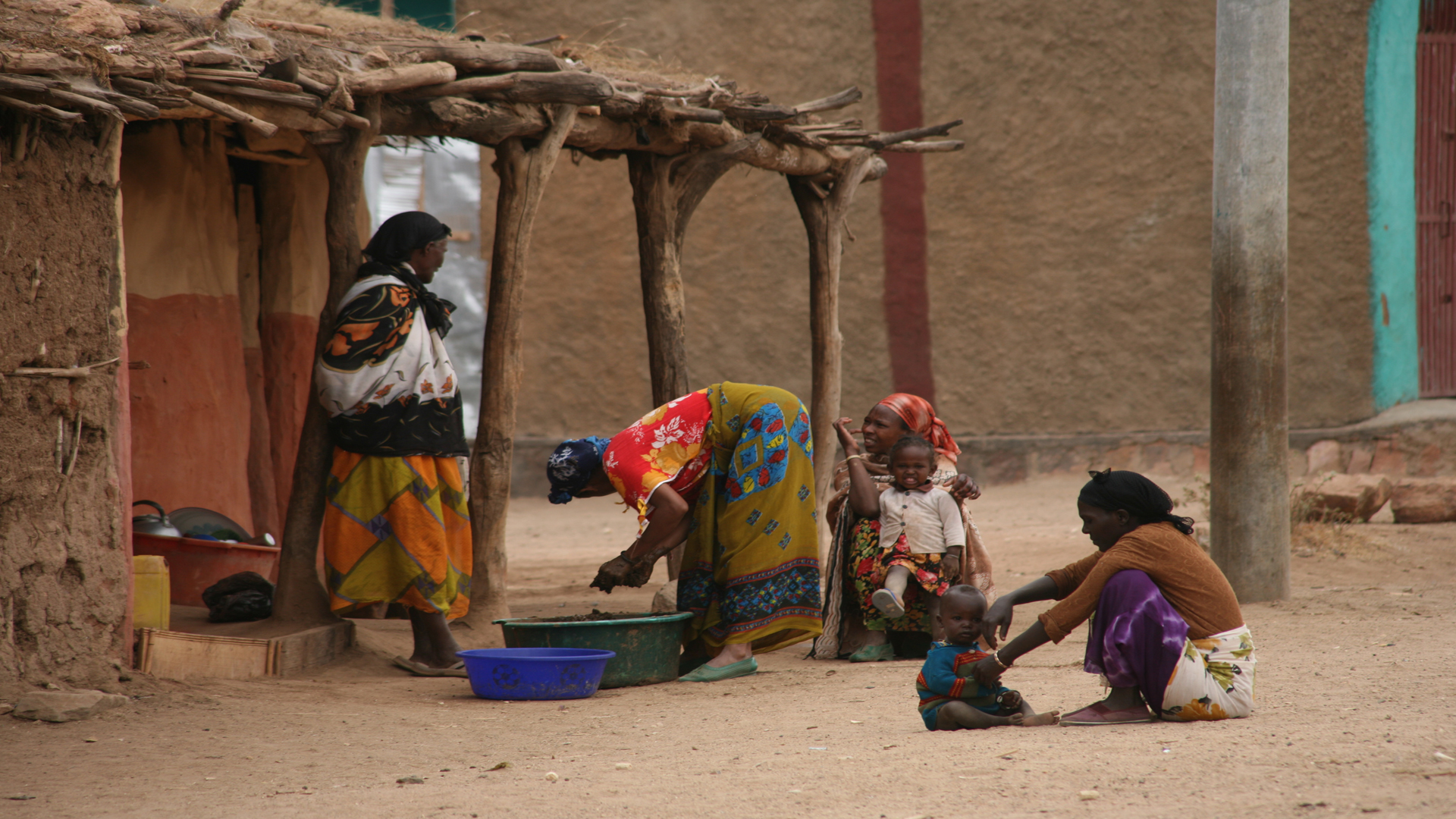 Shots depicting the Lower Valley of the Omo River, UNESCO World Heritage Site, and inhabitants of Southern Ethiopia.